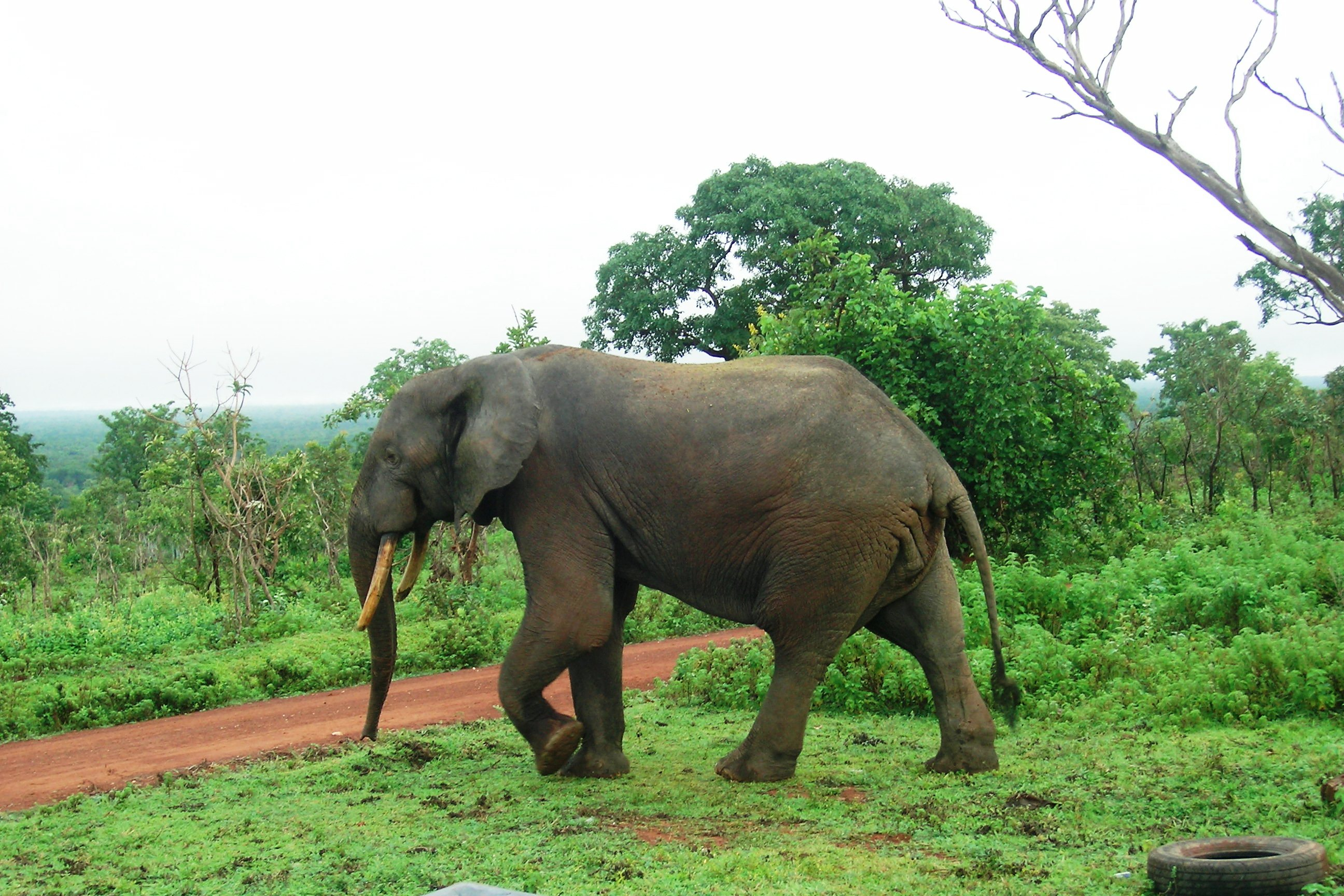 outside my mole residence